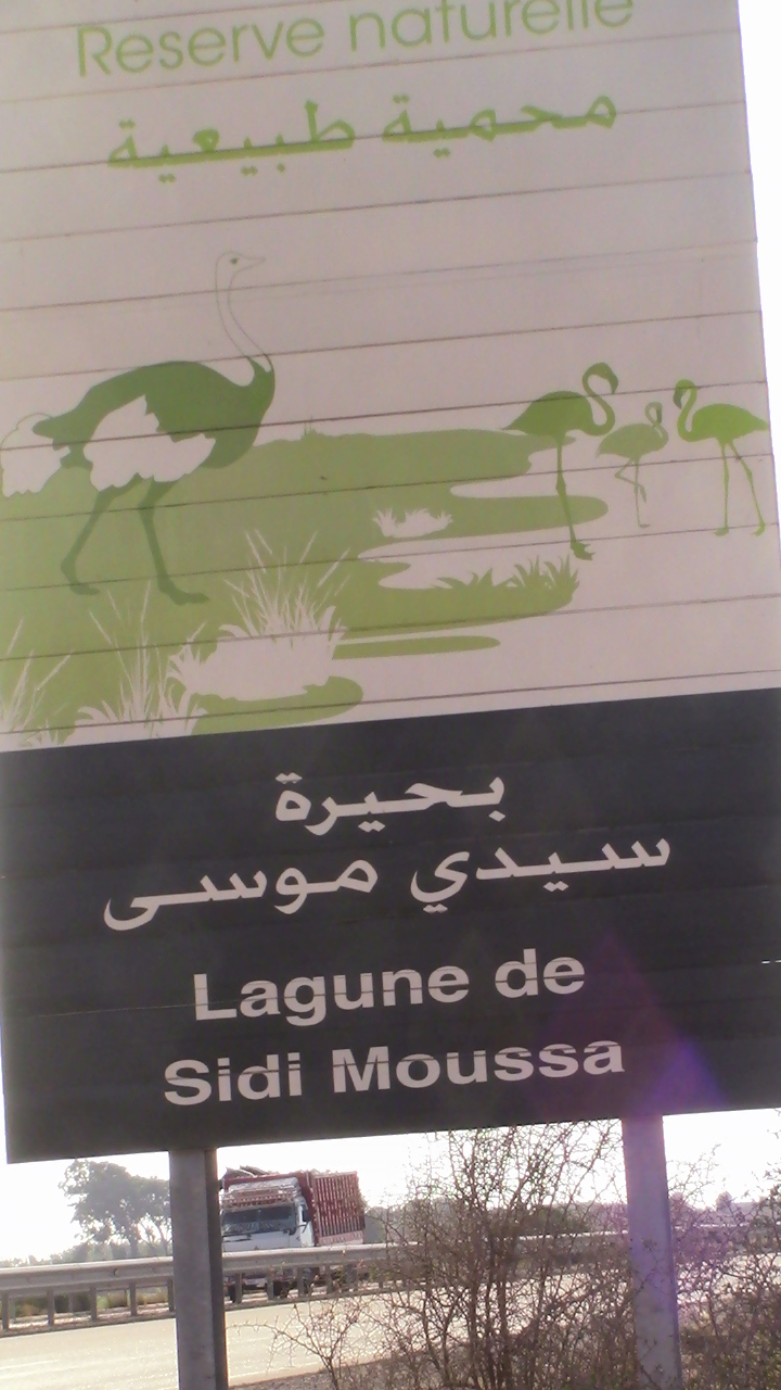 Sidi Moussa Lagoon Nature Preserve - View